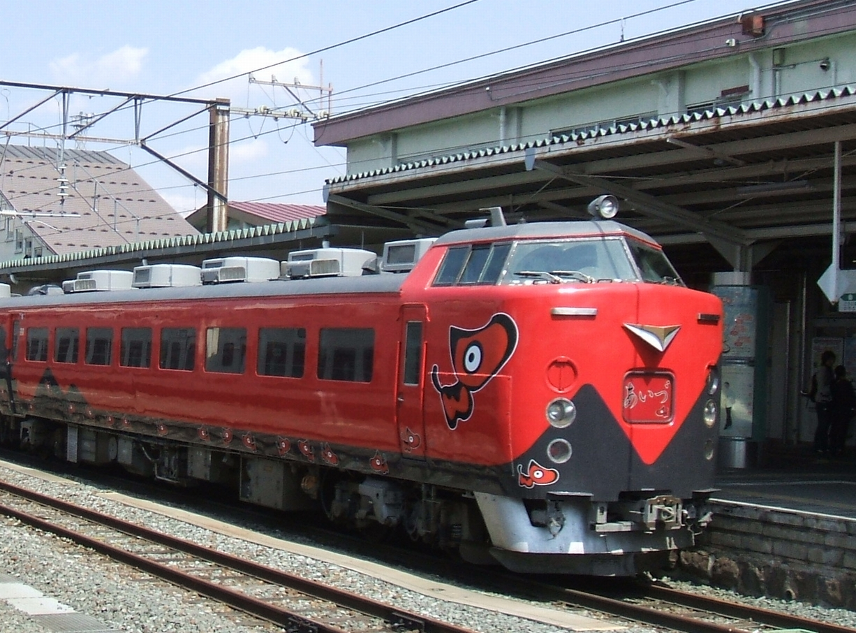 JR East 485 series EMU on an Aizu Liner rapid service at Aizu-Wakamatsu Station